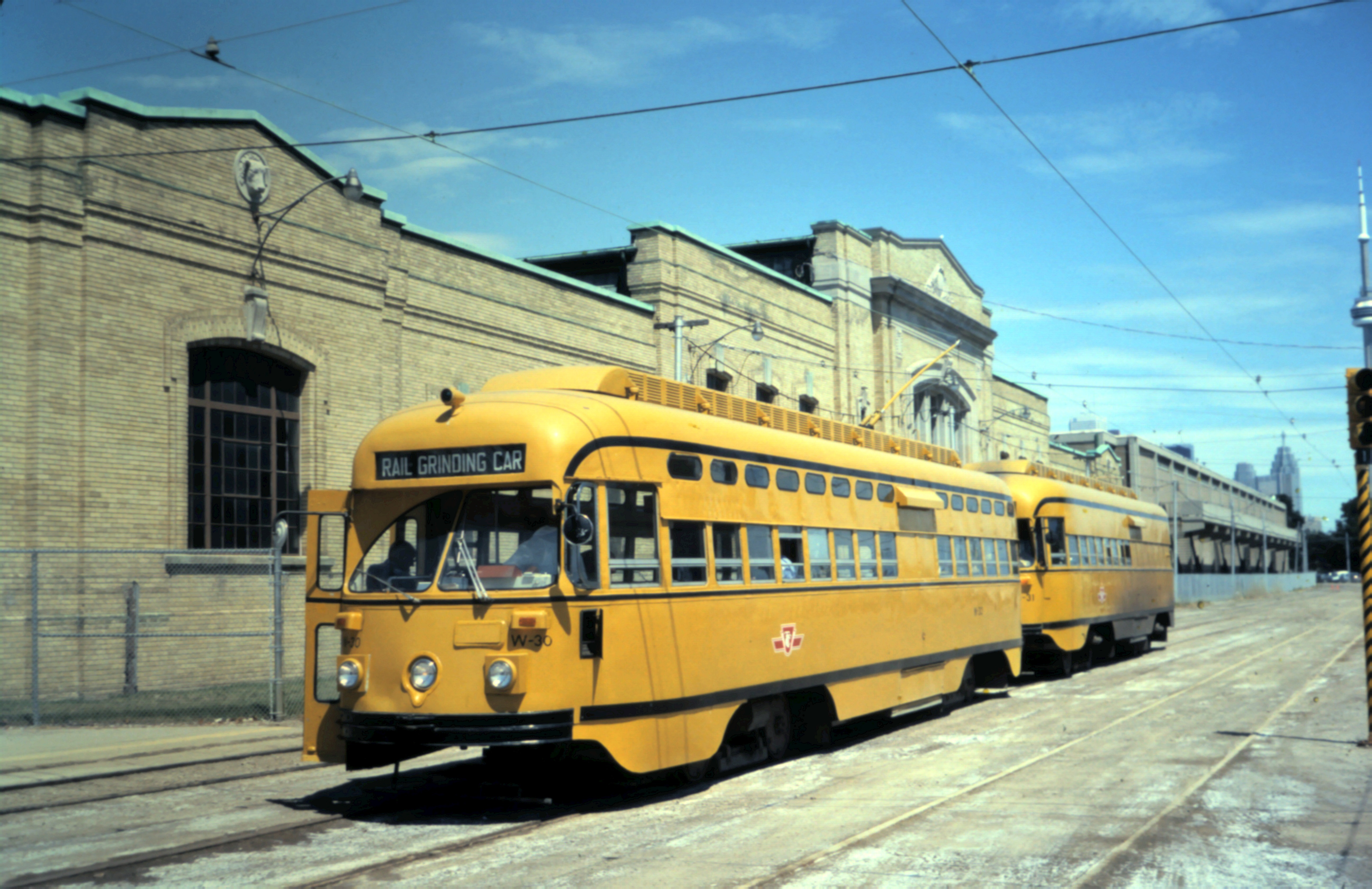 A railgrinding train made up of two PCC streetcars, formerly passenger vehicles but now decommissioned, at least in that use, and repurposed as right-of-way maintenance equipment. This set was operated by the Toronto Transit Commission (TTC), and is here seen at the Exhibition Loop in 1991 (since relocated to the other side of the building in the background). The livery has also been changed to amber with black stripes from the former cream and dark magenta in which most TTC streetcars (and indeed buses) were painted back in the day.